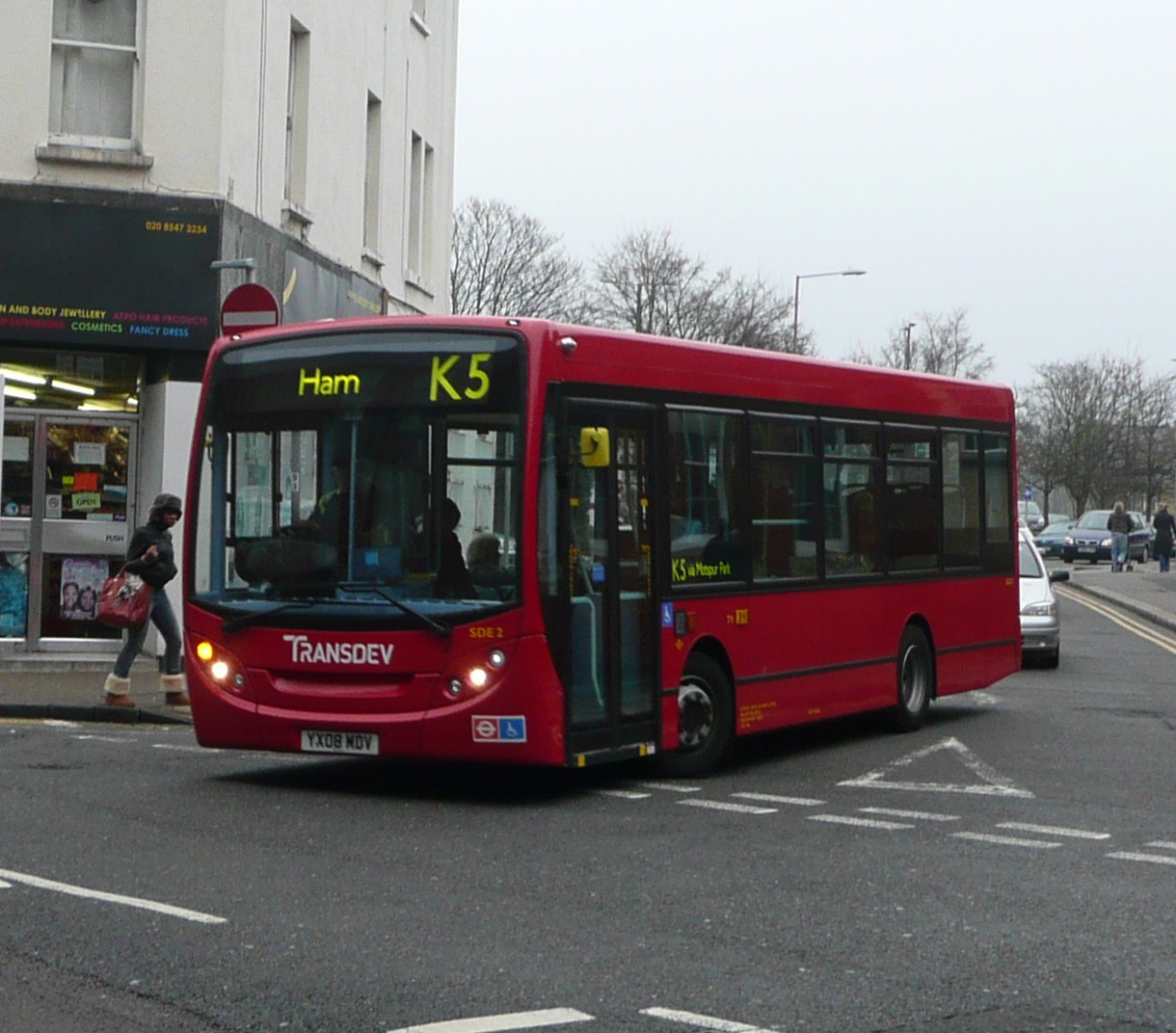 Transdev London's SDE2 (YX08 MDV), an Alexander Dennis Enviro200 Dart in Kingston on route K5.